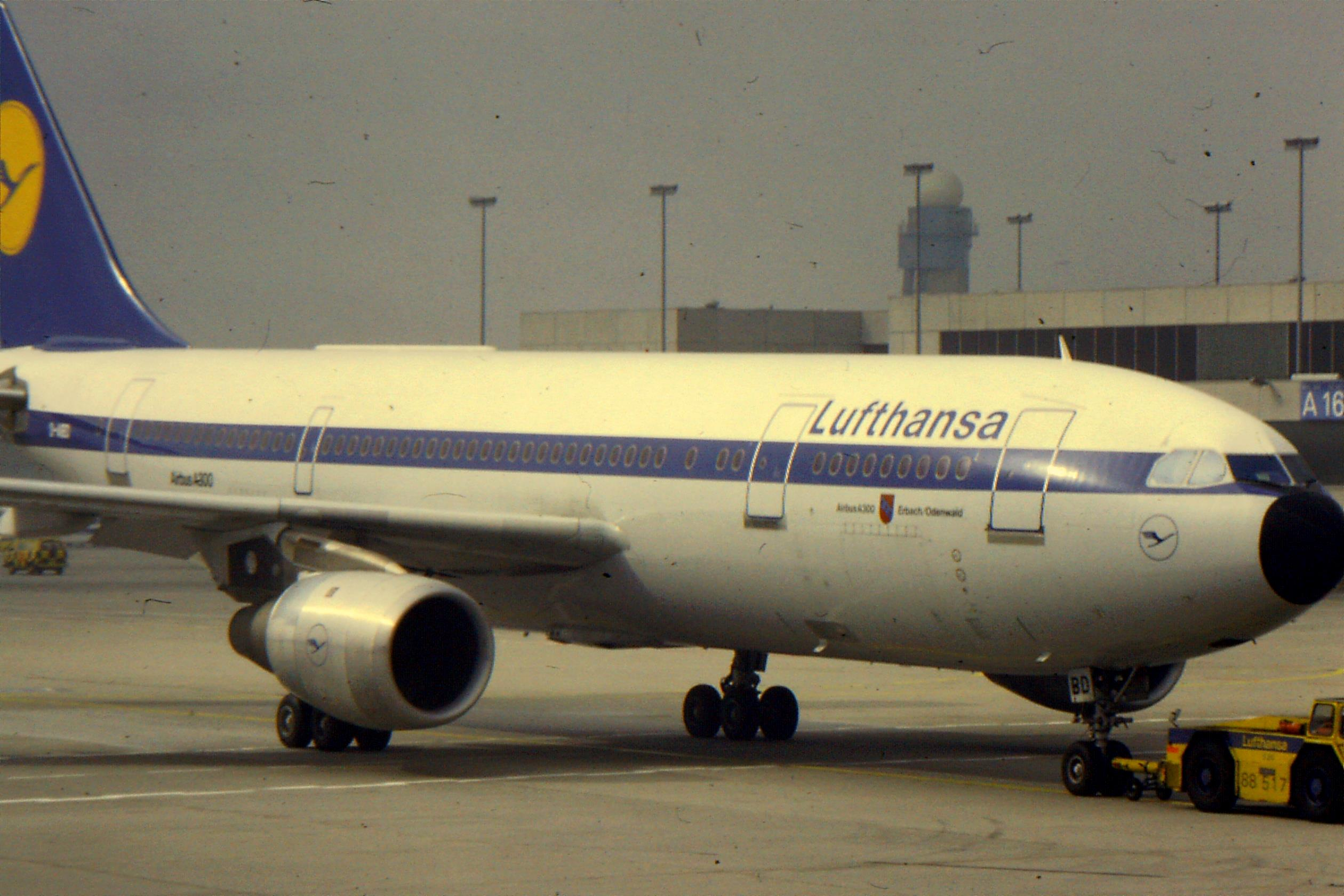 Sadly I cropped the tail. This was an early example of the A300 operating for LH. I managed to get a couple of trips on them, the last trip was to Almaty on one of their -600 variants.